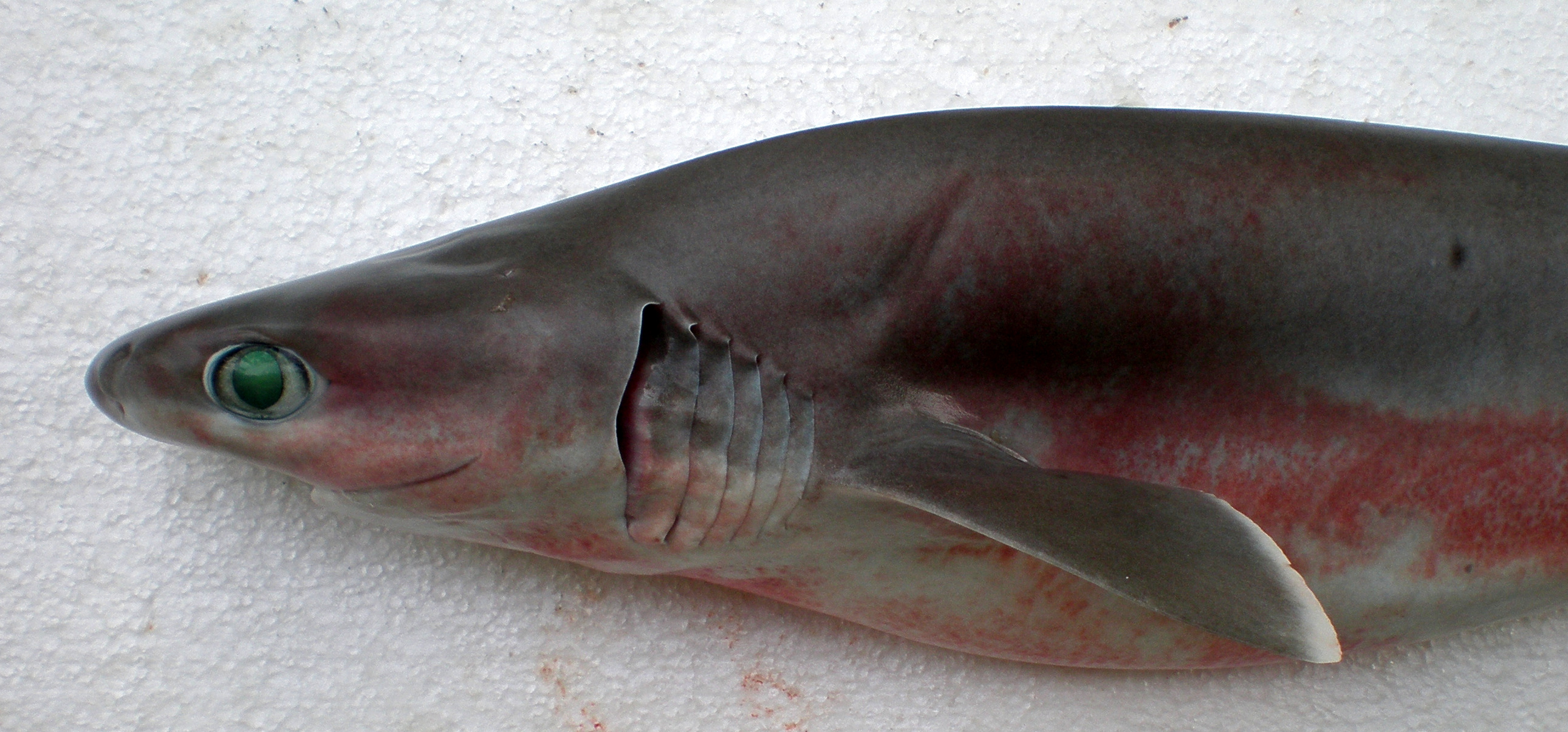 Hexanchus nakamurai. Head, lateral view. Locality: near Passe de Dumbéa, off Nouméa, New Caledonia, Coordinates 22°19'670S, 166°12'899E. Total length 1020 mm, Weight 3,600 grams. Date 03 July 2008. This specimen has been identified by Bernard Séret, IRD-MNHN. This photograph is also in FishBase.